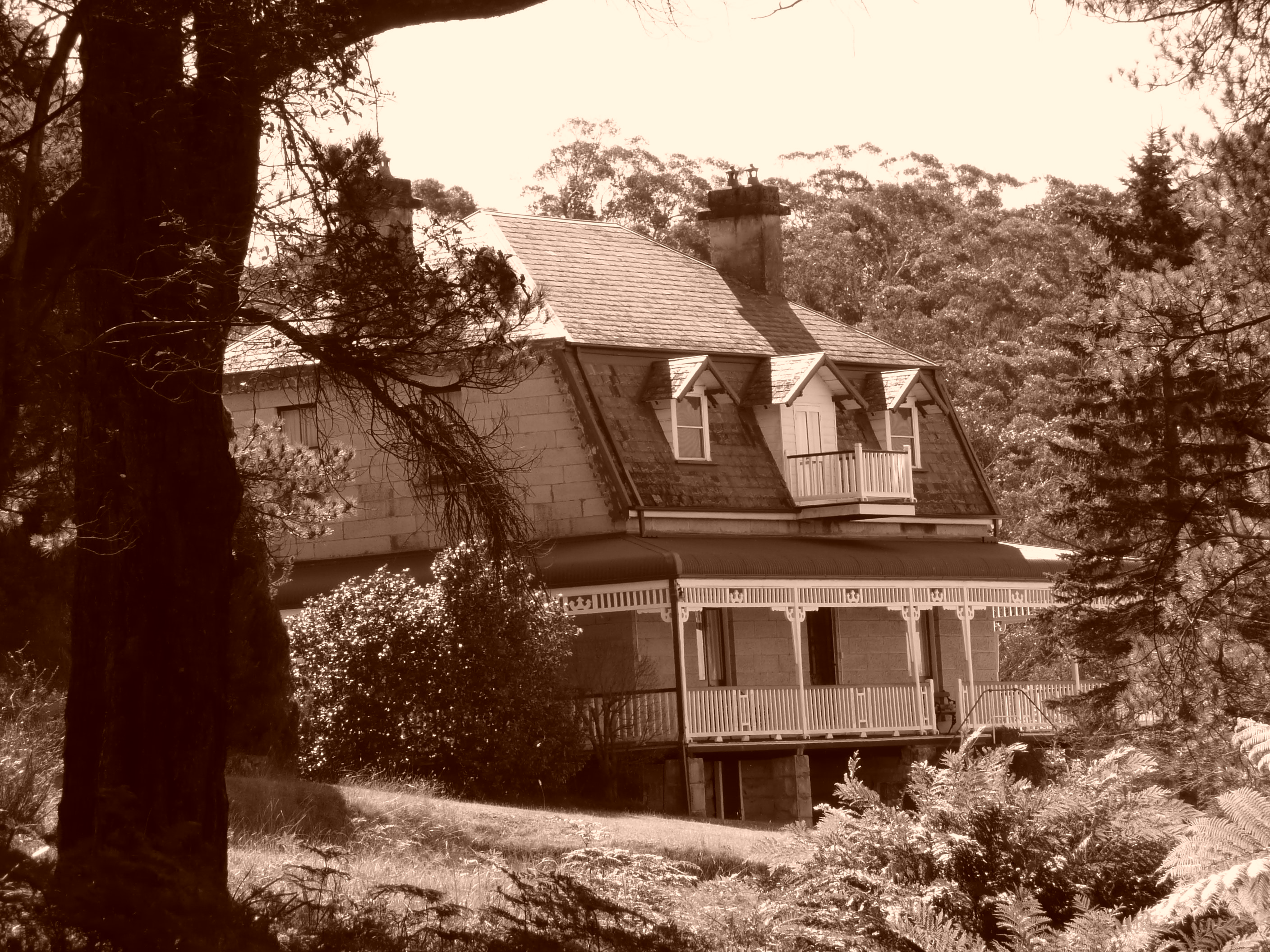 Rhondda Valley, Bullaburra, Blue Mountains, NSW, Australia